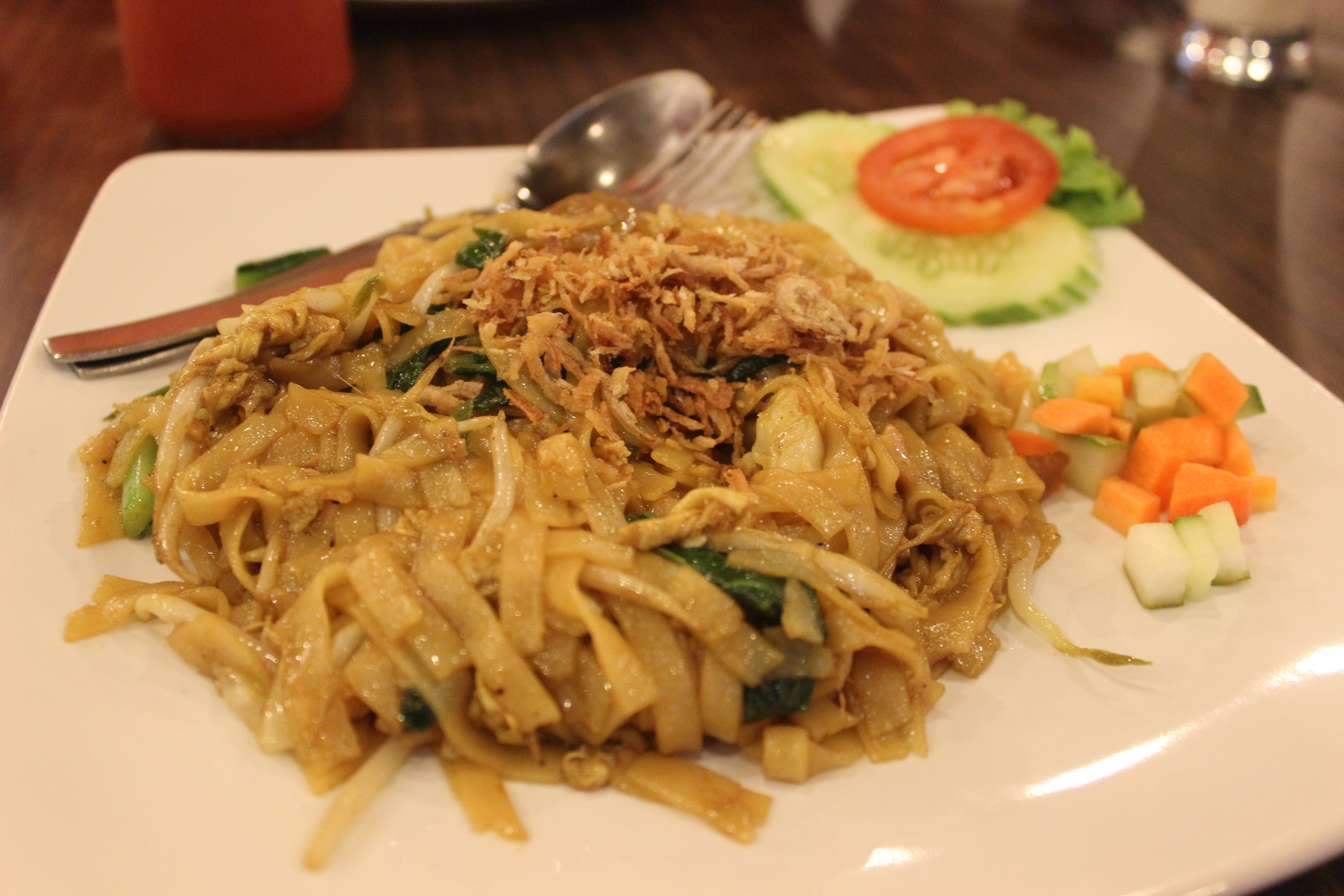 Indonesian fried kwetiau, served with pickles, cucumbers and tomatoes.